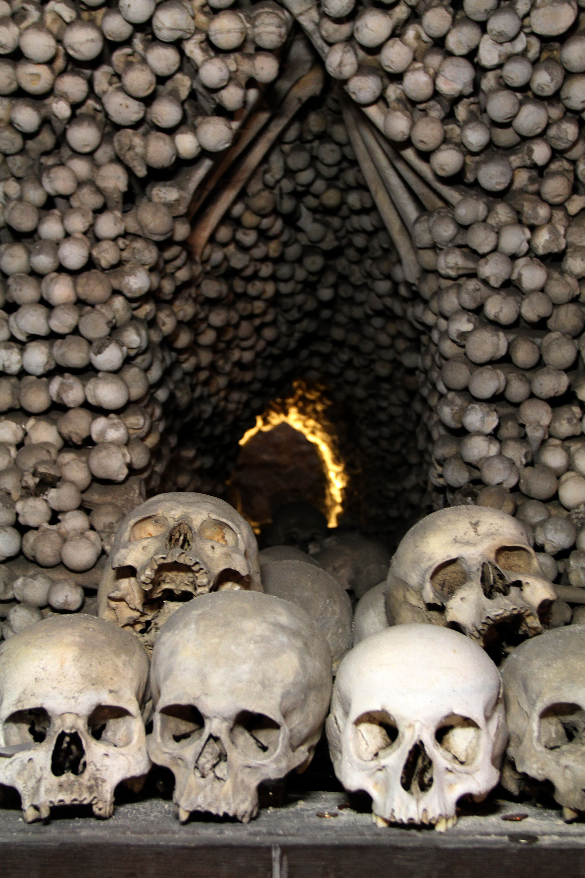 Chapel of All Saints ossuary